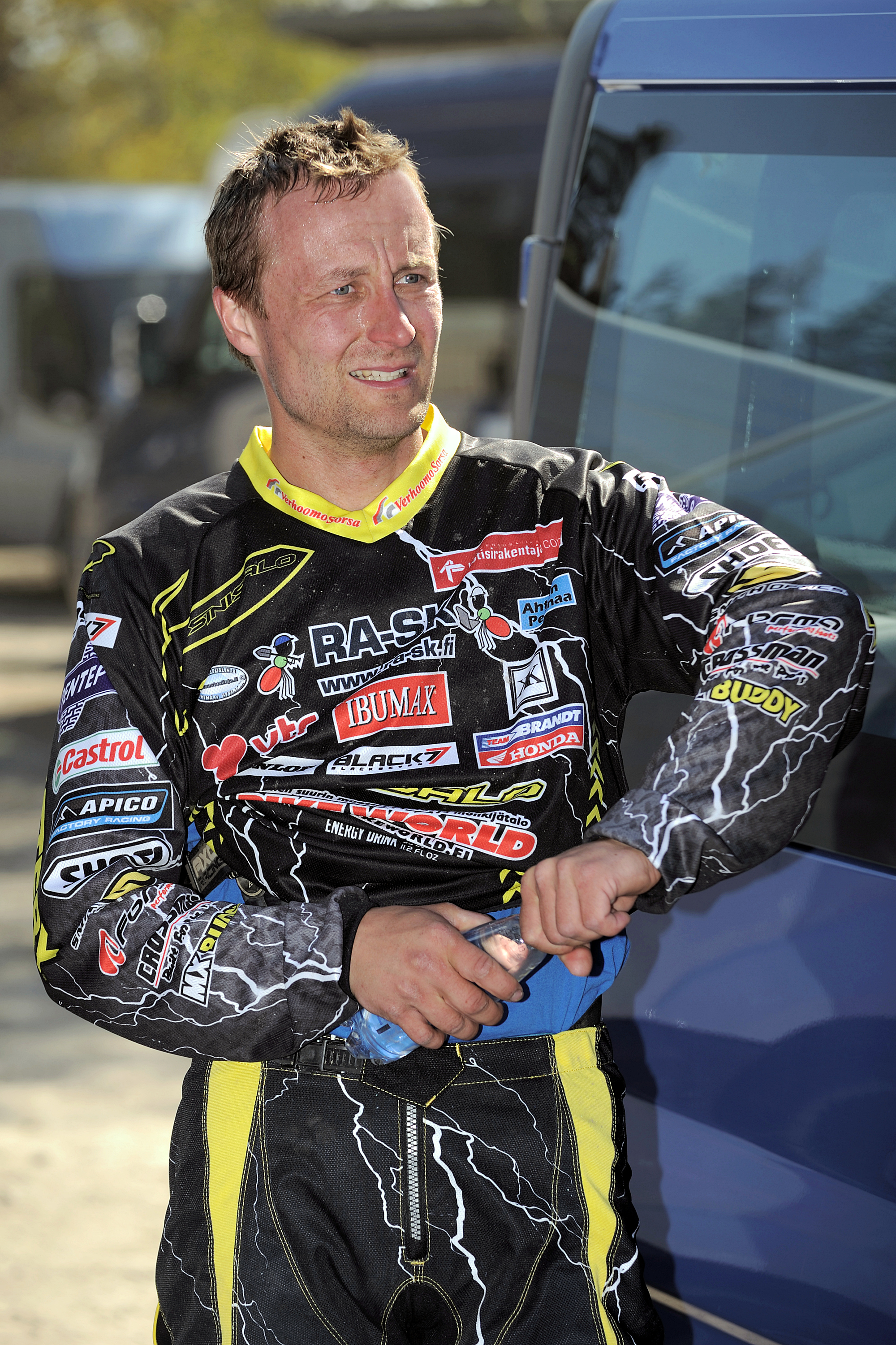 Finnish motocross rider Antti Pyrhönen at the first round of Finnish supercross championship series 2010.